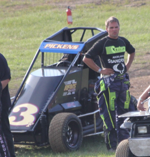 New Zealander Michael Pickens beside his USAC Midget Car at Angell Park Speedway.